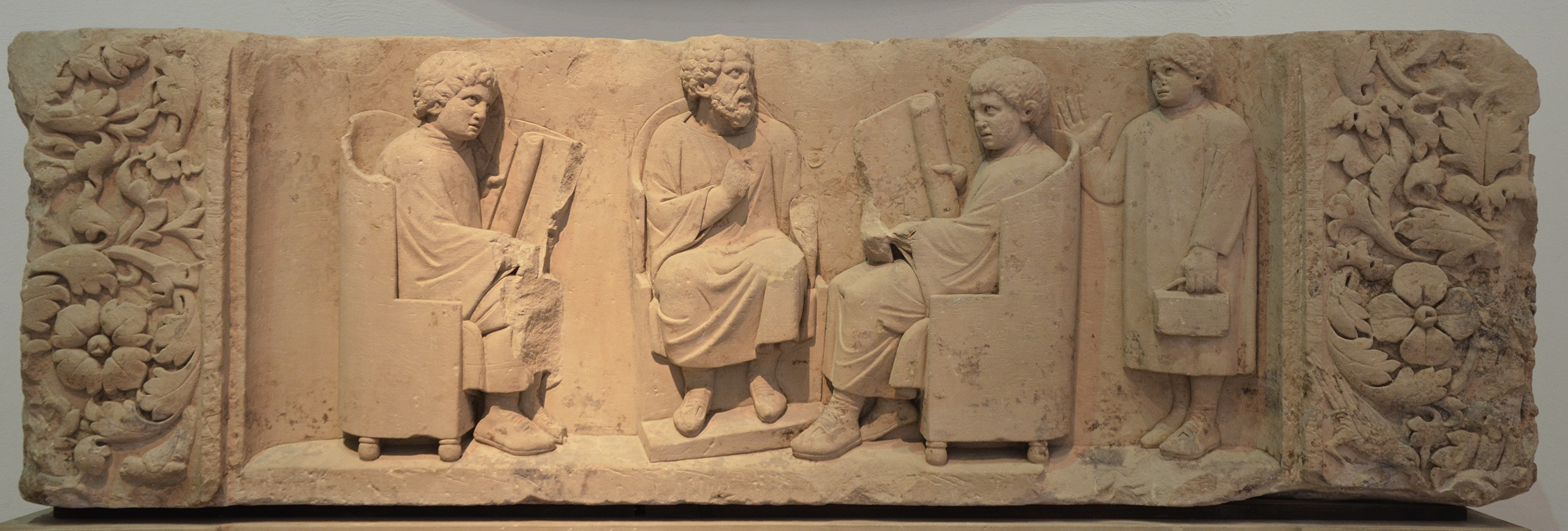 This sandstone relief constituted the right side of a large pillar-style funerary monument; the dedicator was displaying both his wealth and his culture, enabling him to employ a Greek tutor for his three sons. The central panel depicts two older boys seated on either side of their teacher as a younger boy walks into the room. The boy on the left holds a wooden lectern or portable desk on which is an open scroll. The teacher appears to be lecturing the second boy, who also holds an open scroll; the teacher's hairstyle and beard suggest that he is a Greek, and his chair has an attached footstool. The younger boy enter from the right, holding wax tablets bound together by a leather strap; he holds up his hand in greeting but doesn't look especially eager to begin his lessons. Trier, Rheinisches Landesmuseum